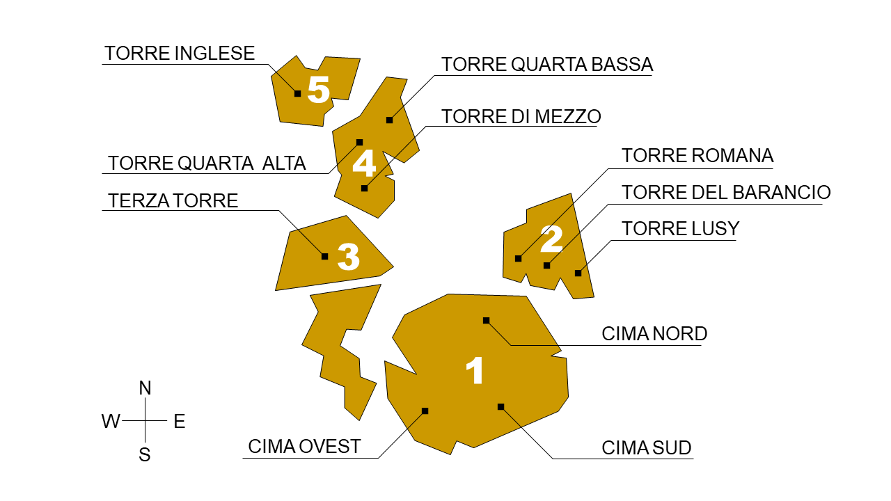 Cinque Torri